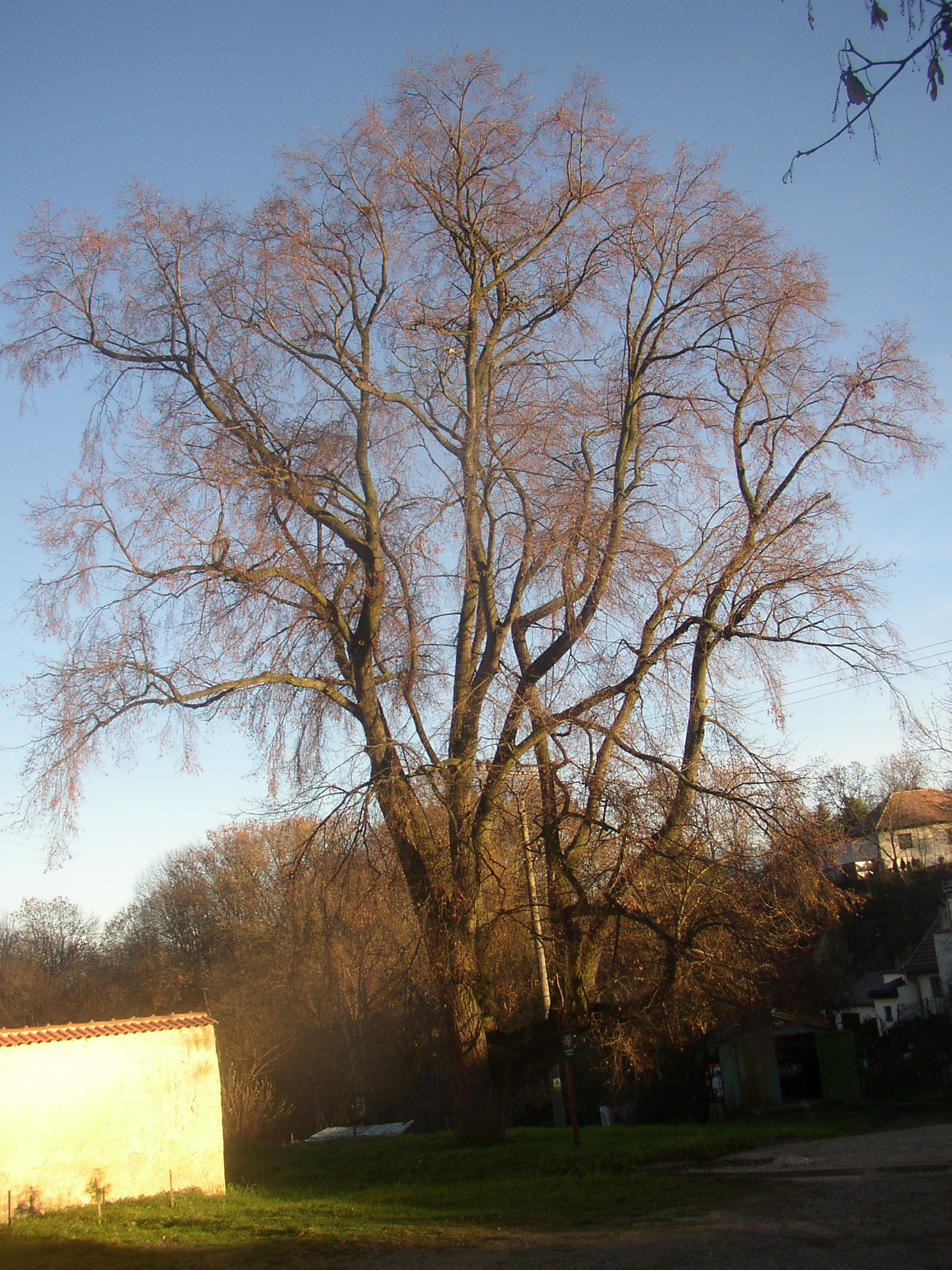 Protected example of Small-leaved Lime (Tilia cordata) in Želenice, Kladno District, Central Bohemian Region, Czech Republic.